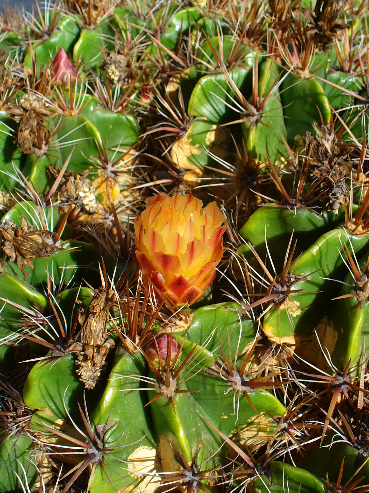 Flower; Jardín de Cactus, Guatiza, Lanzarote, Canary Islands, Spain.